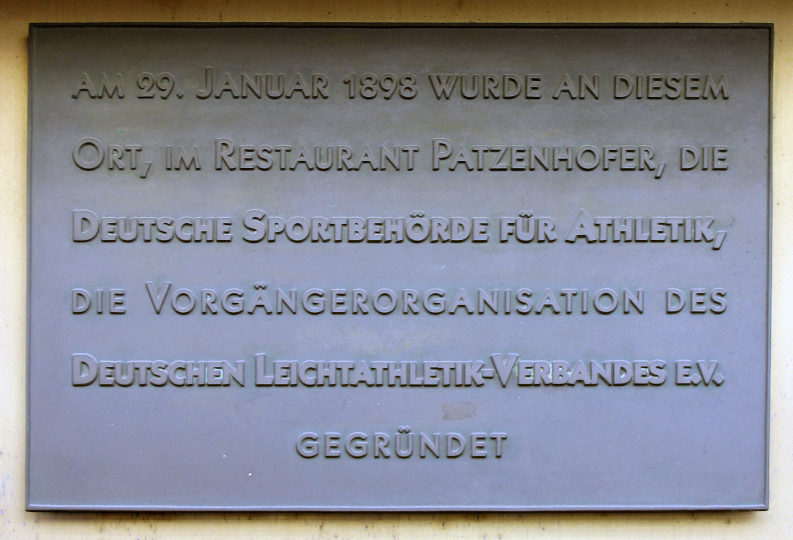 Memorial plaque, Deutsche Sportbehörde für Athletik, Friedrichstraße 71, Berlin-Mitte, Deutschland